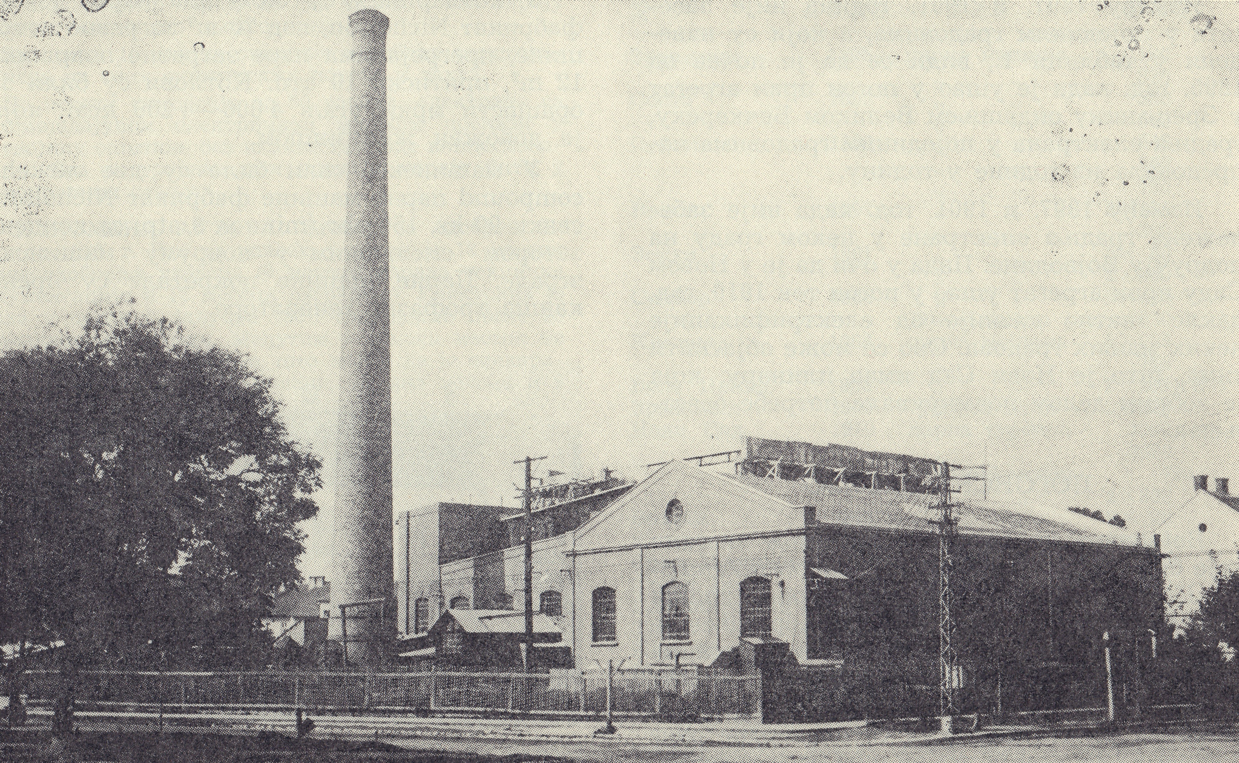 Electric power station in Zemun.